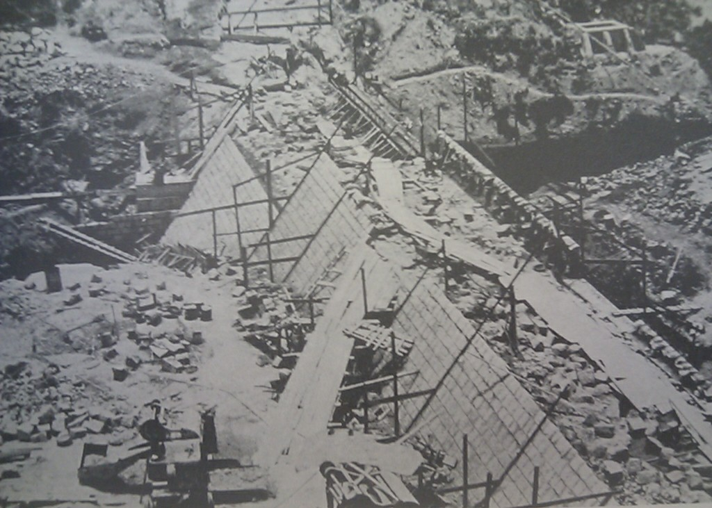 Shap Long Reservoir during construction